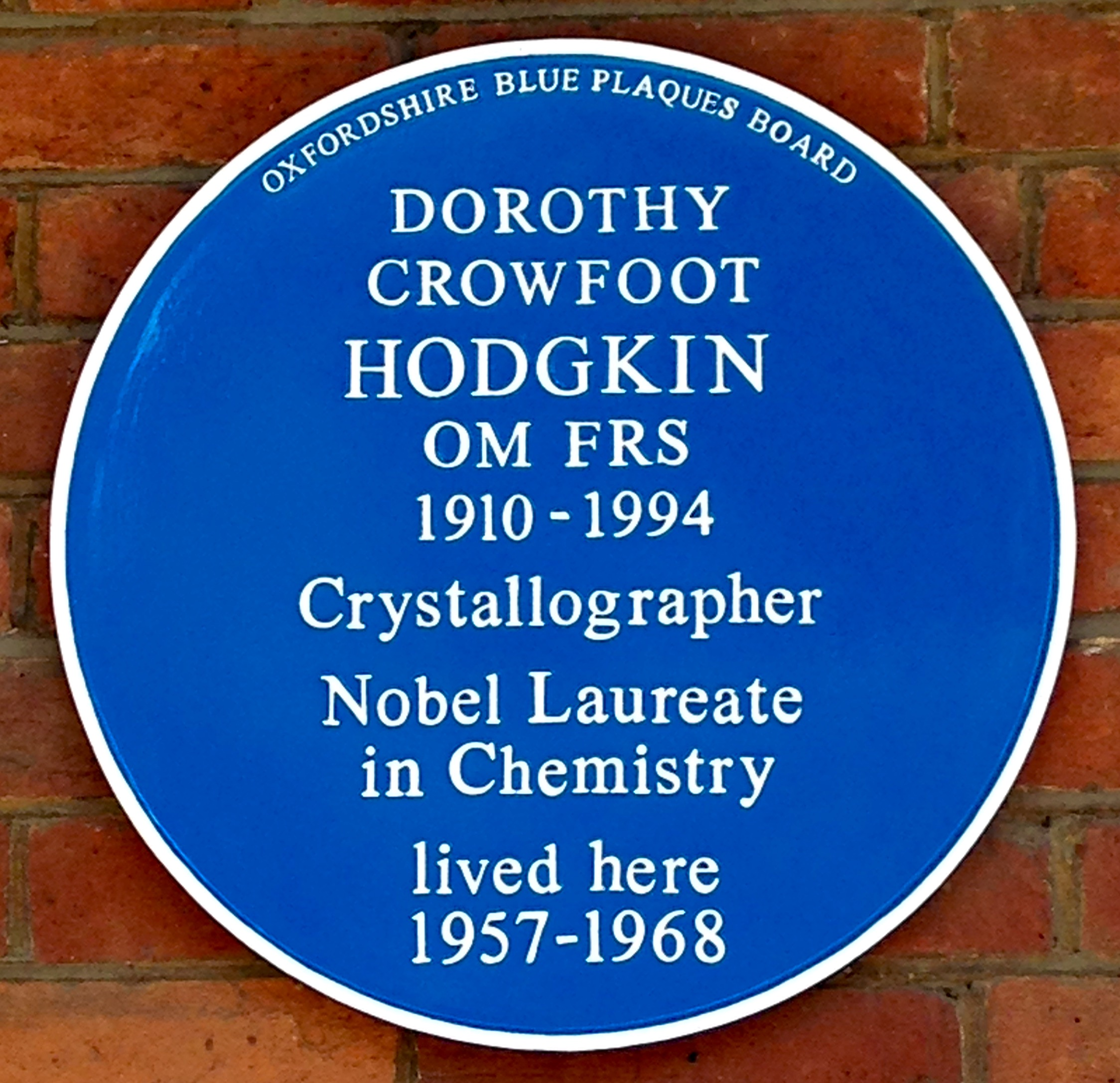 Dorothy Hodgkin blue plaque in 94 Woodstock Road, Oxford